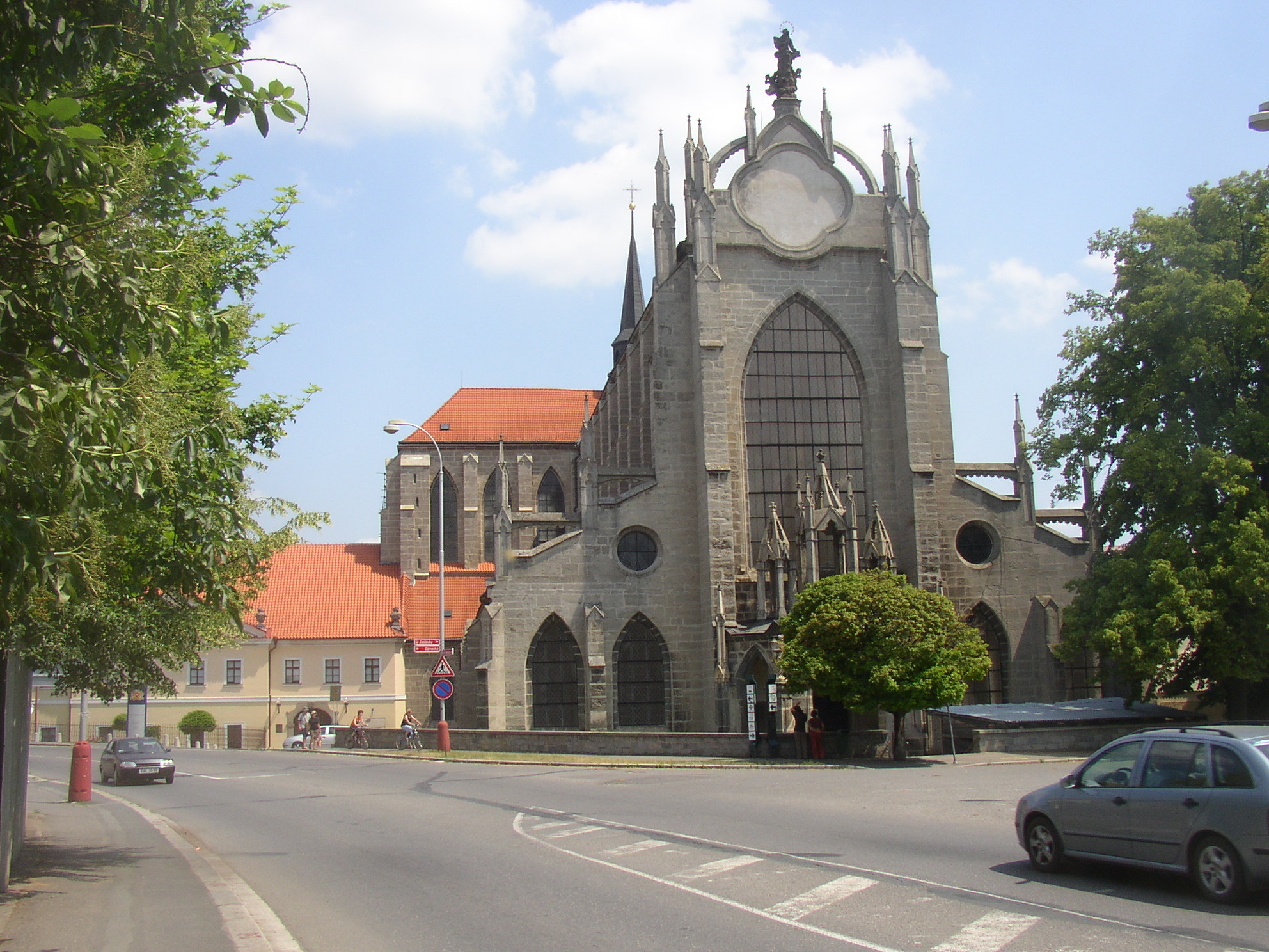 Cathedral of Assumption of Virgin Mary in Sedlec (part of Kutná Hora), Czech Republic.